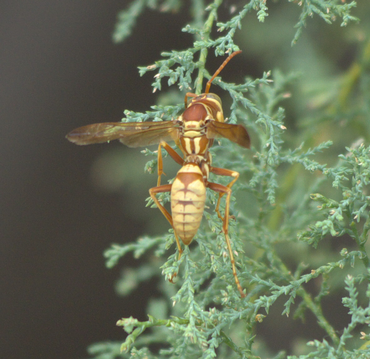 Polistes aurifer, Genus: Paper Wasps, ID Confidence: 97